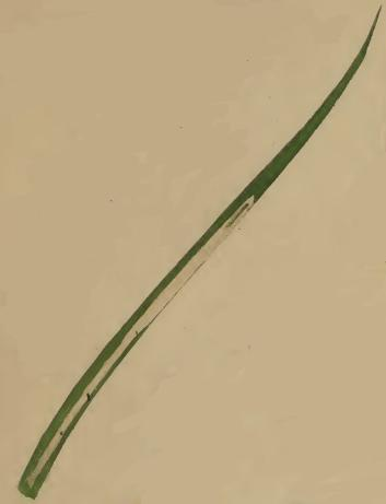 Stainton’s Natural History of the Tineina (1855–1873): Cosmopterix orichalcea a mined leaf blade of Festuca arundinacea